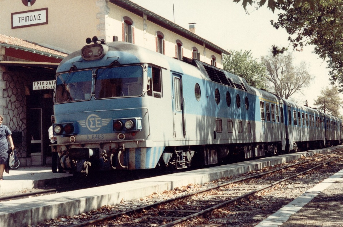 Ganz-Mavag trainset A-6463 of OSE at Tripolis station, Greece.